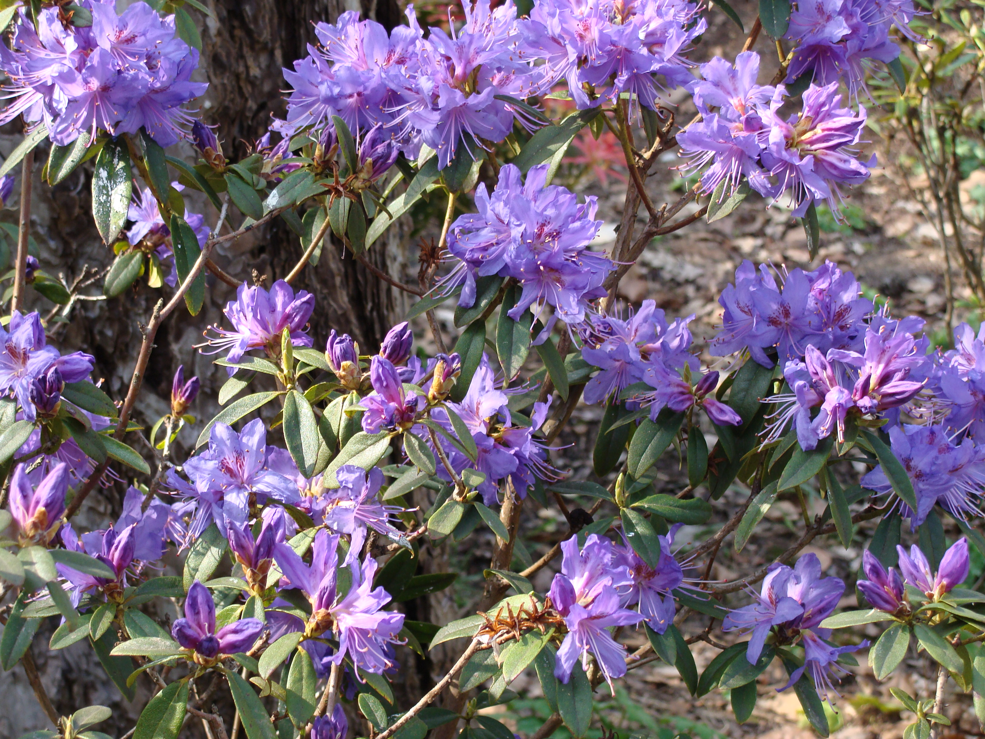 Rhododendron augustinii 'Hillier's dark form', cultivar.